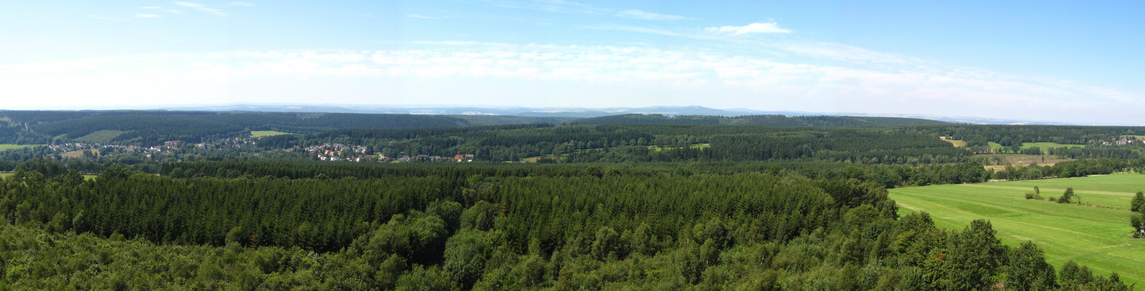 Germany / Mountains Solling: view from the tower "Hochsollingturm"